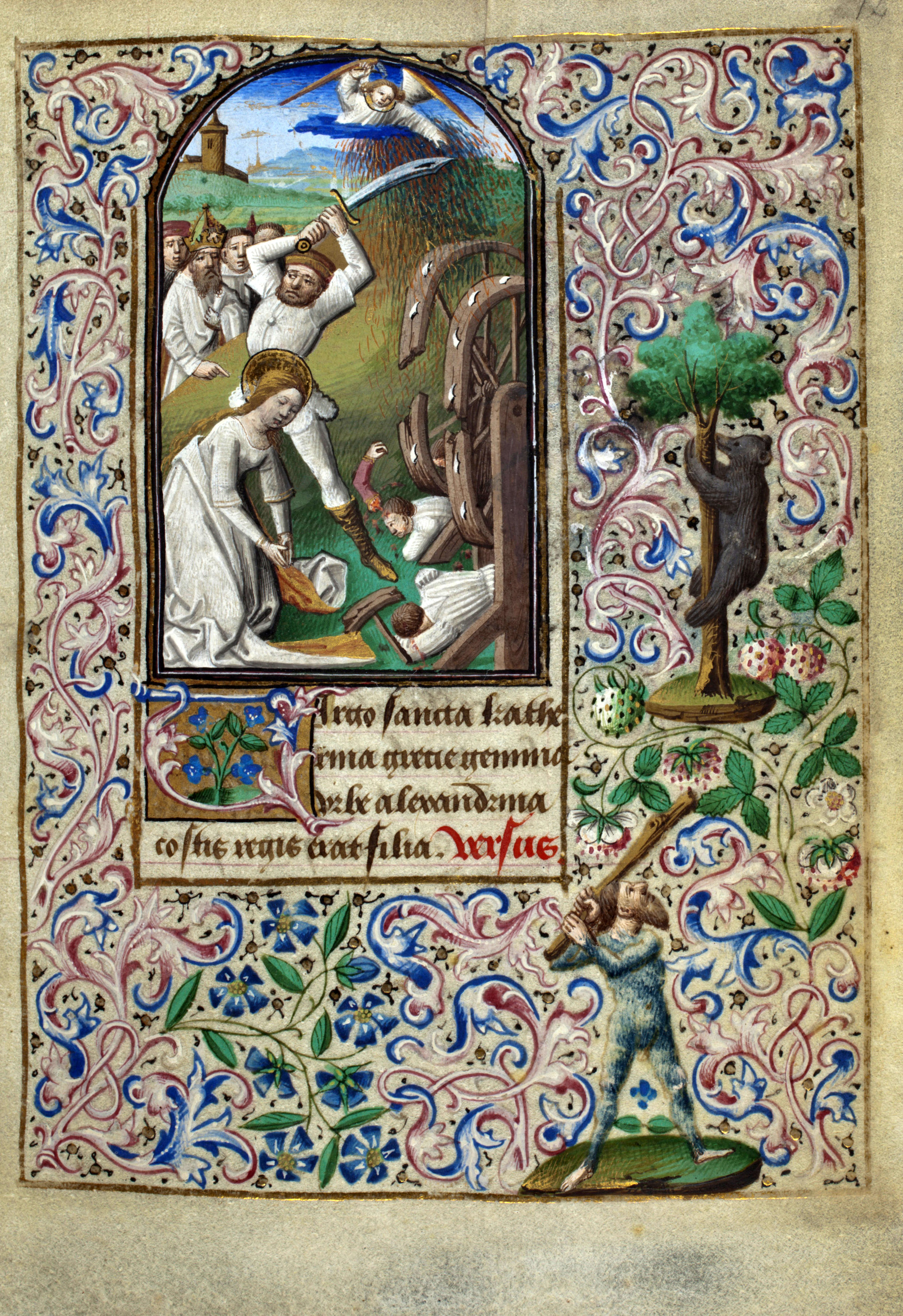 Folio 014r from the Book of Hours of Simon de Varie - KB 74 G37a Miniature on the folio 014r The martyrdom of St. Catherine of Alexandria - she is beheaded